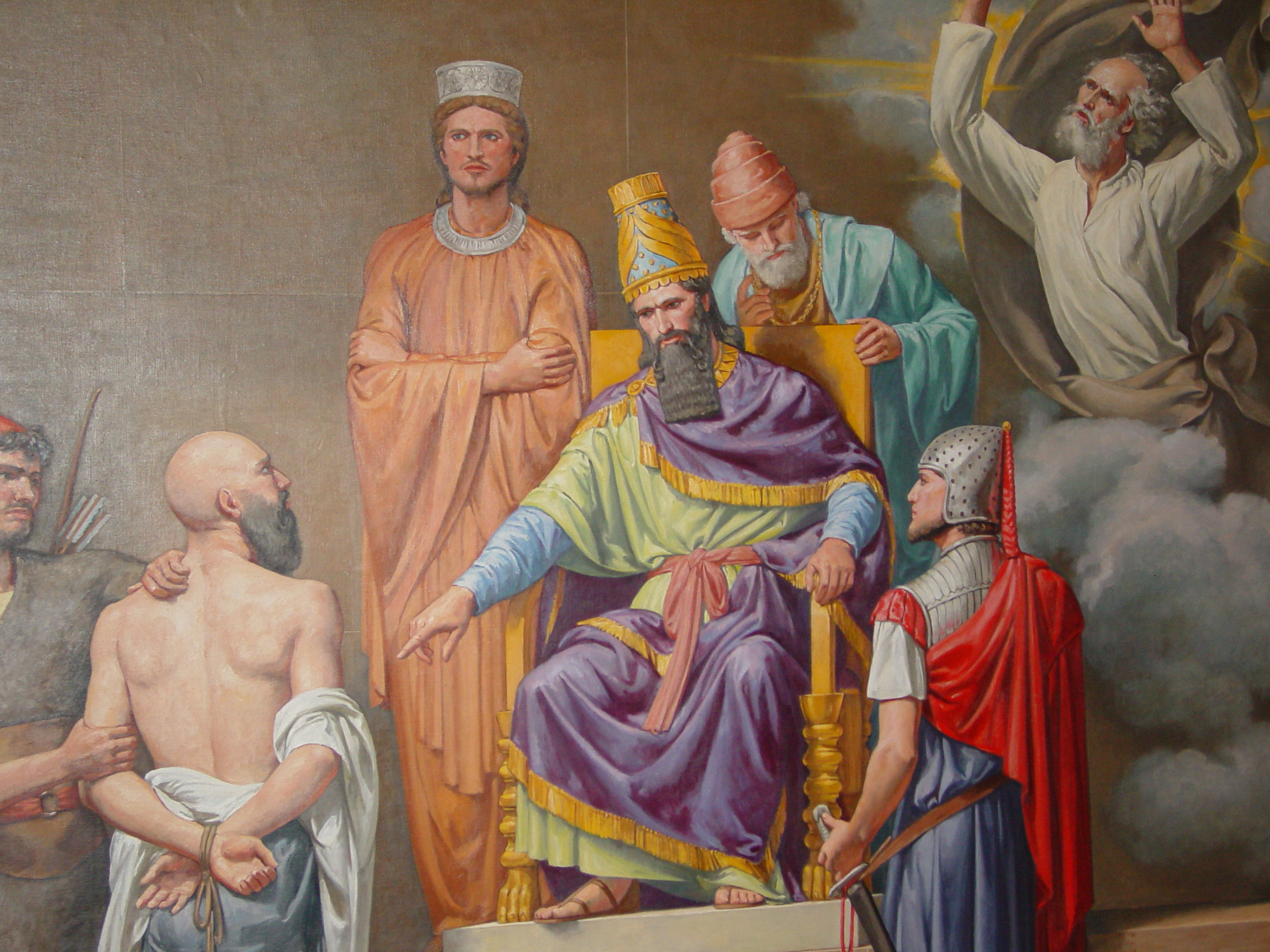 Mural in the Cryptic Room of the George Washington Masonic National Memorial, painted by Allyn Cox.